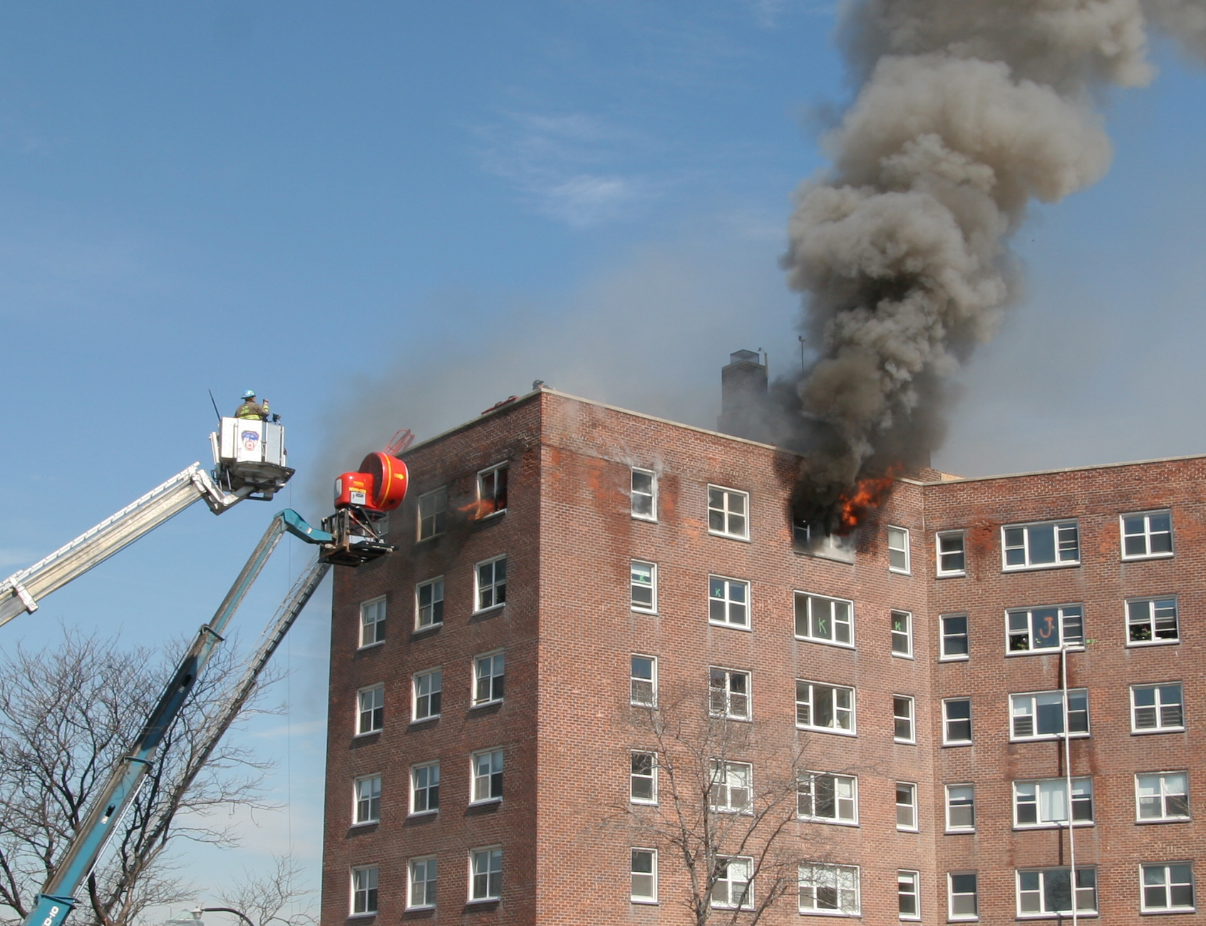 Firefighters watch as a fan, simulating wind, changes airflow and smoke conditions during experiments in a seven-story high-rise abandoned apartment building on New York City's Governors Island. The NIST tests examined firefighting techniques such as the use of positive pressure ventilation fans, wind control devices and hose streams to control or suppress heat and smoke from wind driven fires. Credit: NIST Disclaimer: Any mention of commercial products within NIST web pages is for information only; it does not imply recommendation or endorsement by NIST. Use of NIST Information: These World Wide Web pages are provided as a public service by the National Institute of Standards and Technology (NIST). With the exception of material marked as copyrighted, information presented on these pages is considered public information and may be distributed or copied. Use of appropriate byline/photo/image credits is requested.